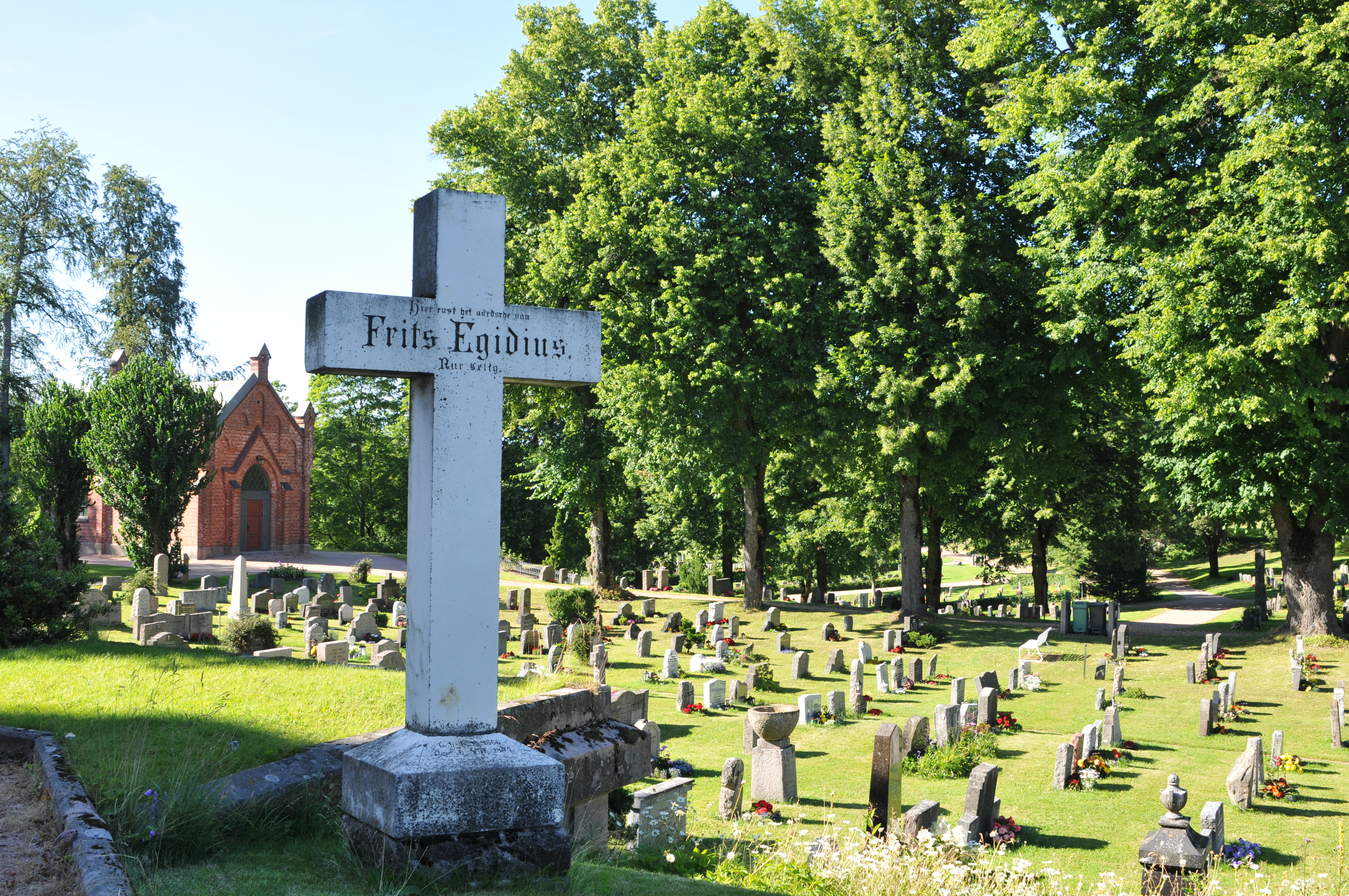 Asker Cemetary, Asker, NorwayNorsk bokmål: Asker kirkegård, Asker, Norge